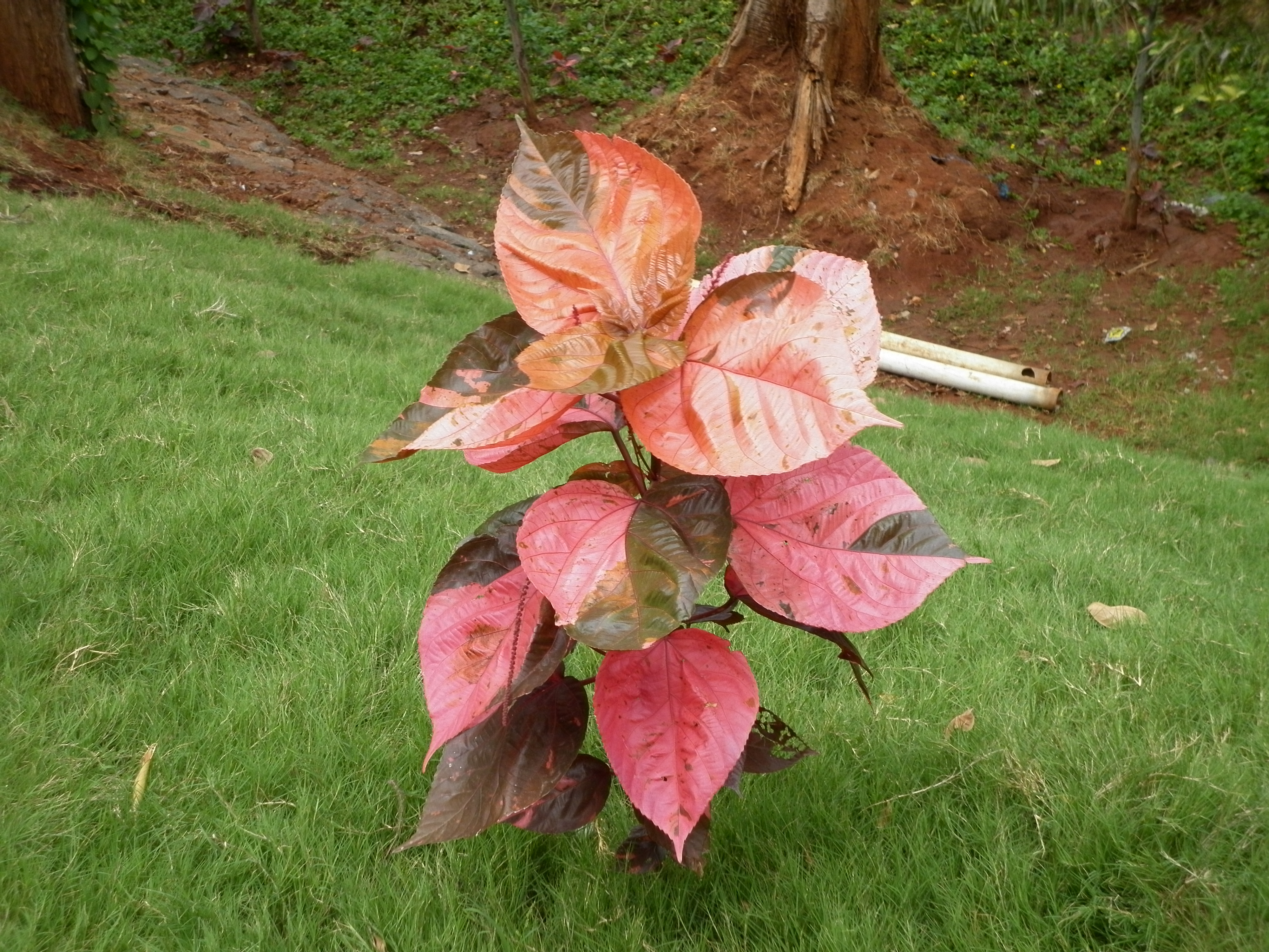 This plant picture is taken at State horticultural Farm Courtallam,Tirunelveli,TamilNadu,India